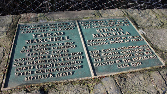 Strata Marcella Tablet plaque detailing location of 12th Century Abbey.